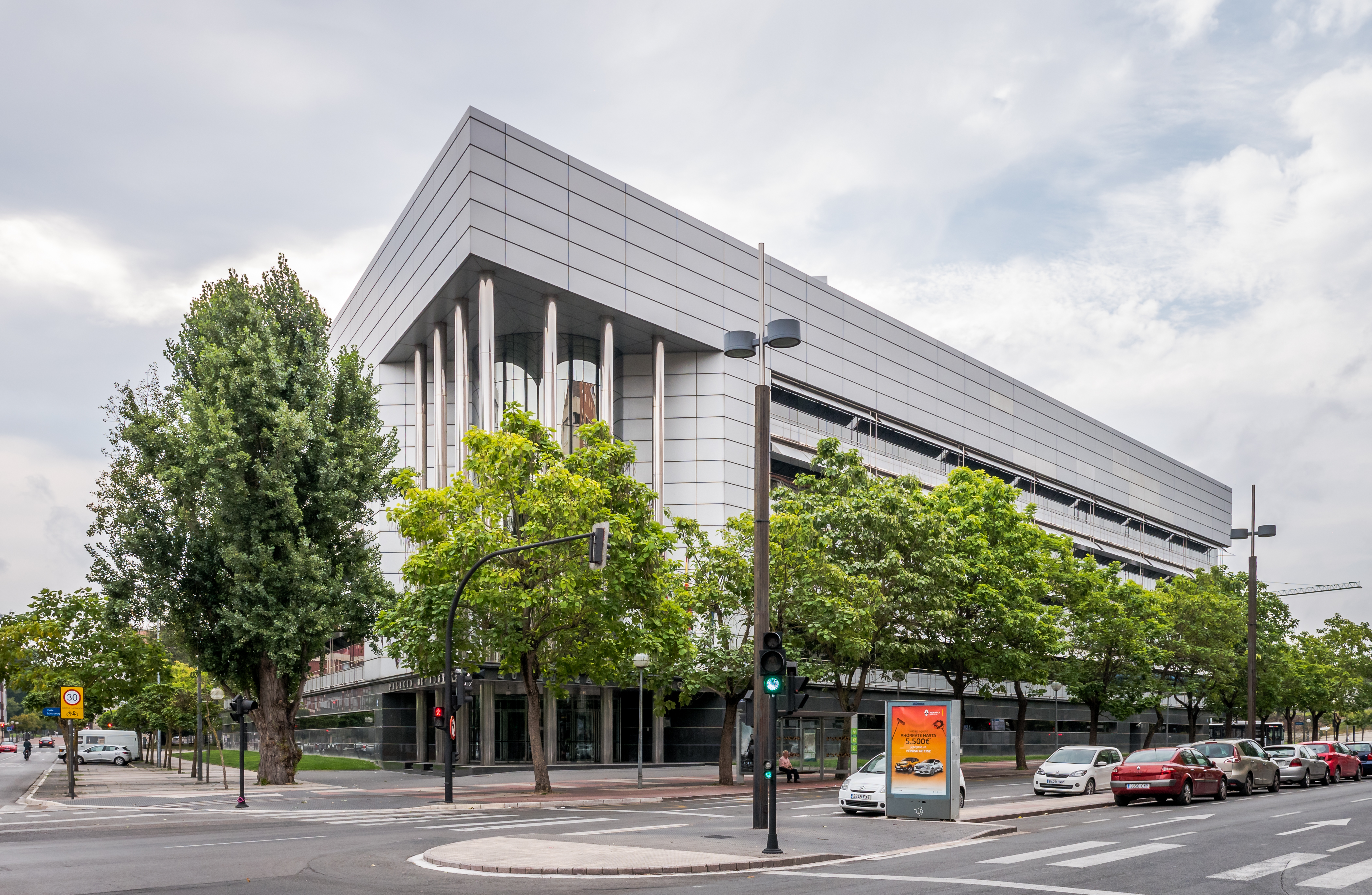 Main Courts at Gasteiz Avenue. Vitoria-Gasteiz, Basque Country, Spain